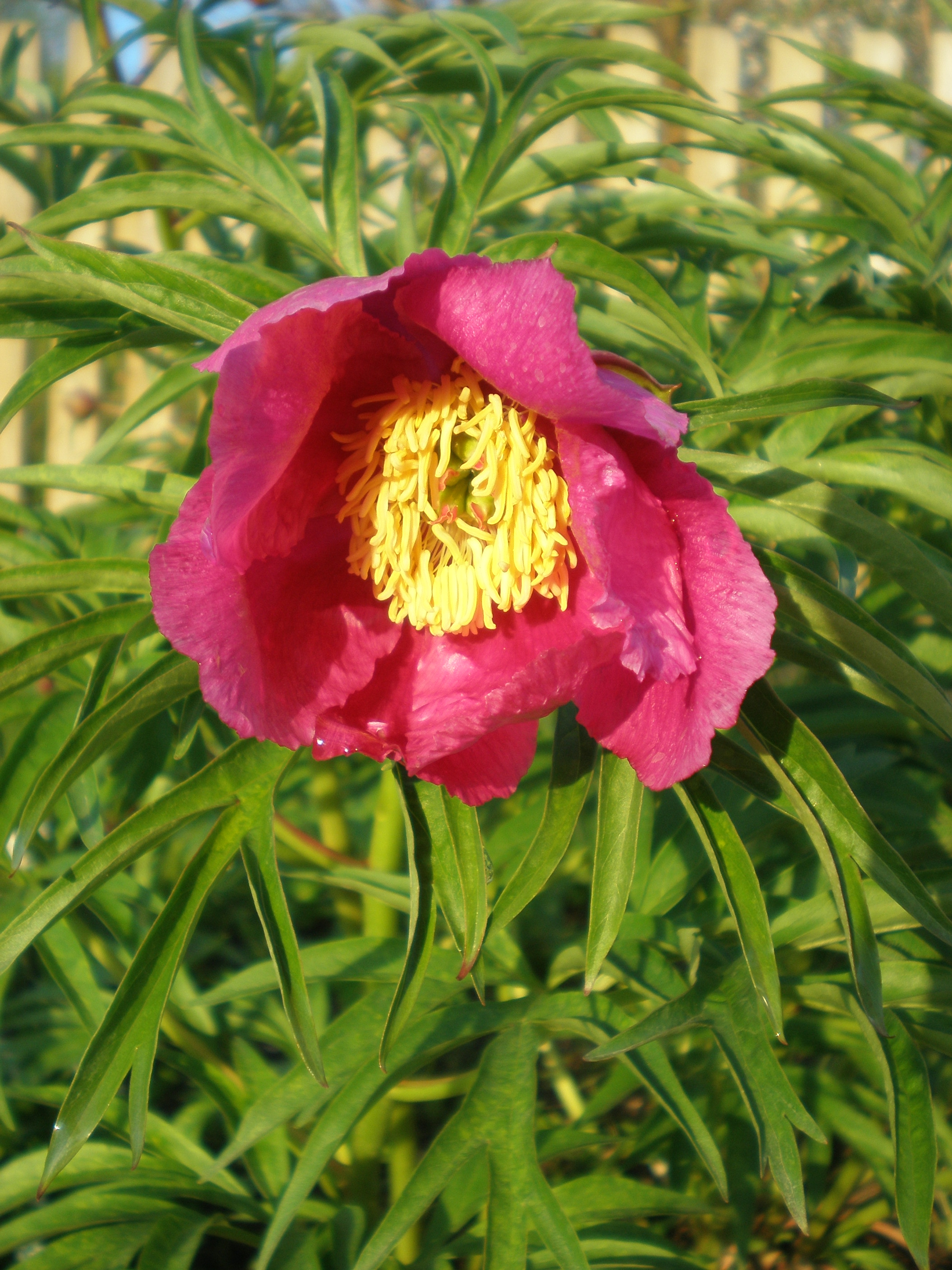 Paeonia anomala, origin of this specimen and botanical species itself: Siberia